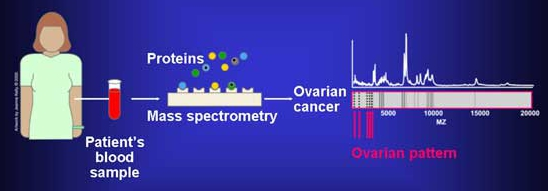 (Text from ) Scientists have learned that it is not necessary to identify every protein active in cancer and captured by laser microdissection. To accomplish a molecular diagnosis, all that may be needed is to separate and preserve a unique subset, a pattern of proteins shared by all patients with the same cancer type. For example, researchers collected blood samples from a group of patients with diagnosed ovarian cancer. They used mass spectrometry to collect all the protein profiles that appeared in the patients' serum samples. While there was some variation from patient to patient, pooling enough samples of confirmed ovarian cancer enabled clinicians to use cluster analysis to determine what subset of proteins consistently served as markers for the presence of cancer. Identification of this subset was successful, and today we are on our way to completing a method of molecular diagnosis for ovarian cancer.